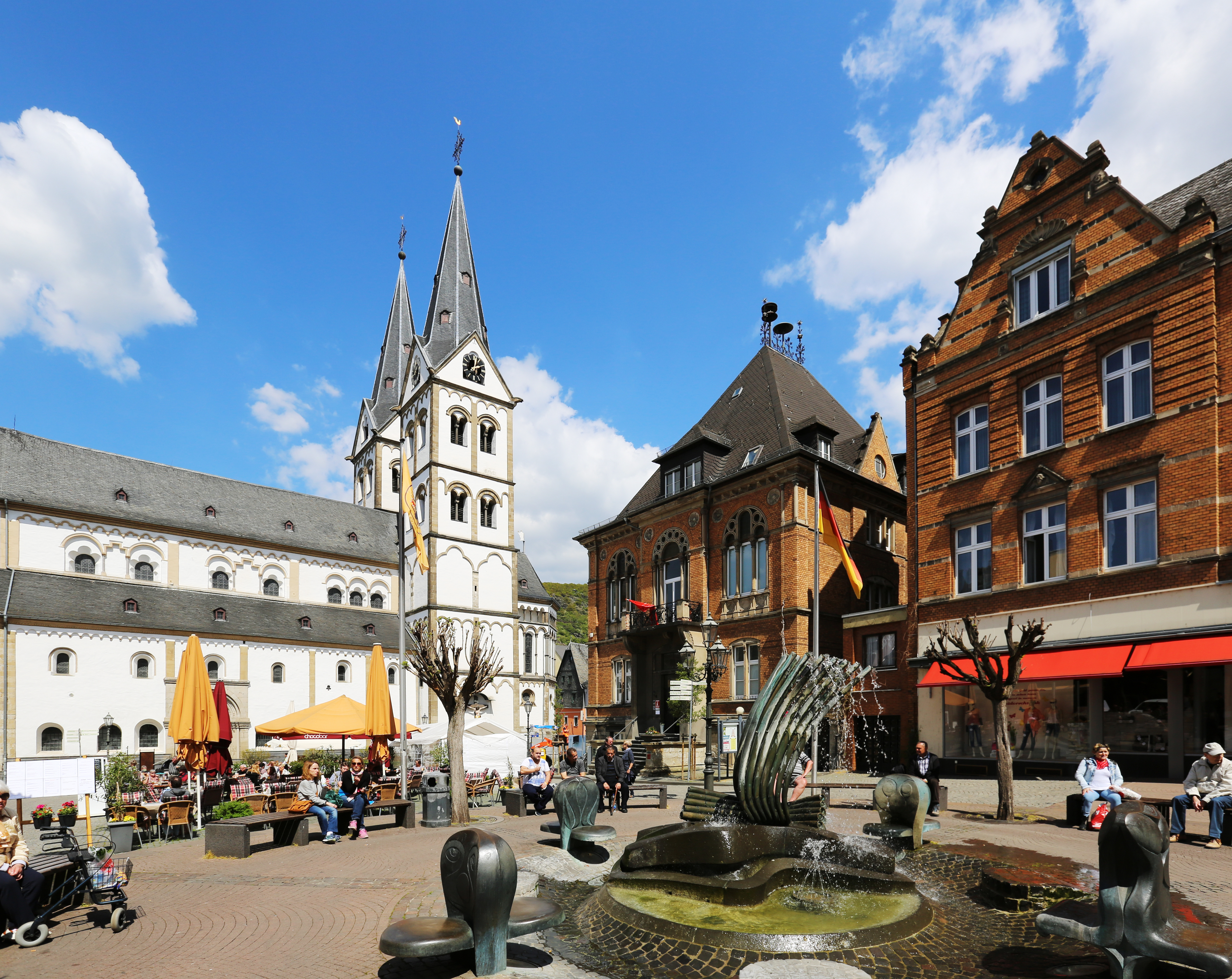 Market square of Boppard, Basilica St. Severus, old town hall and fountain